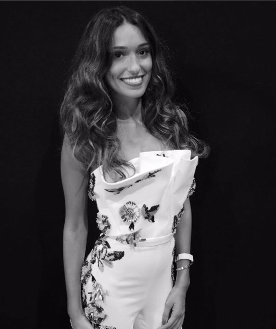 Foto della CEO del Gruppo FMM in Evento Privato